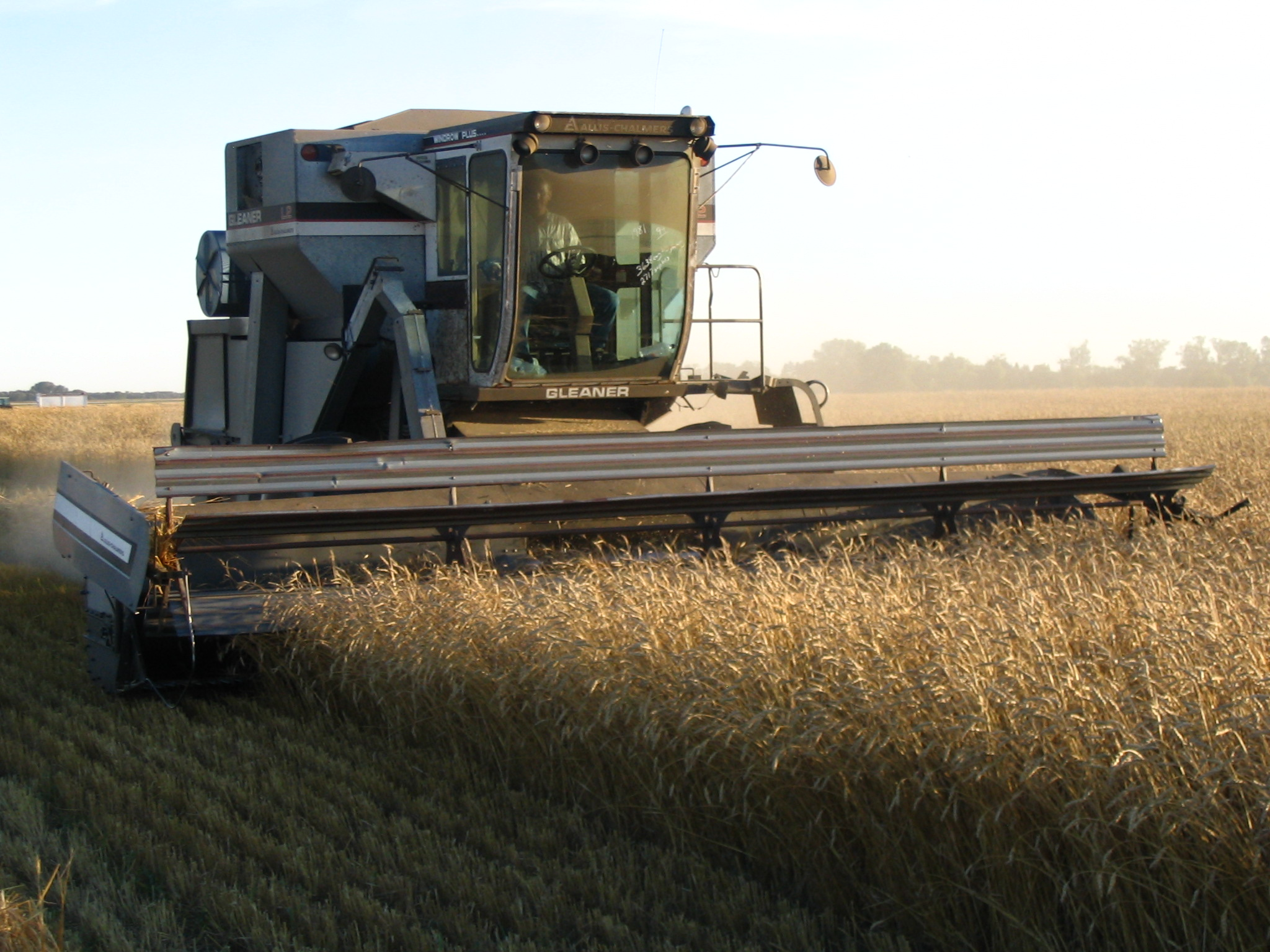 An Allis-Chalmers Gleaner L2 combine harvester in Southwest Manitoba, Canada.